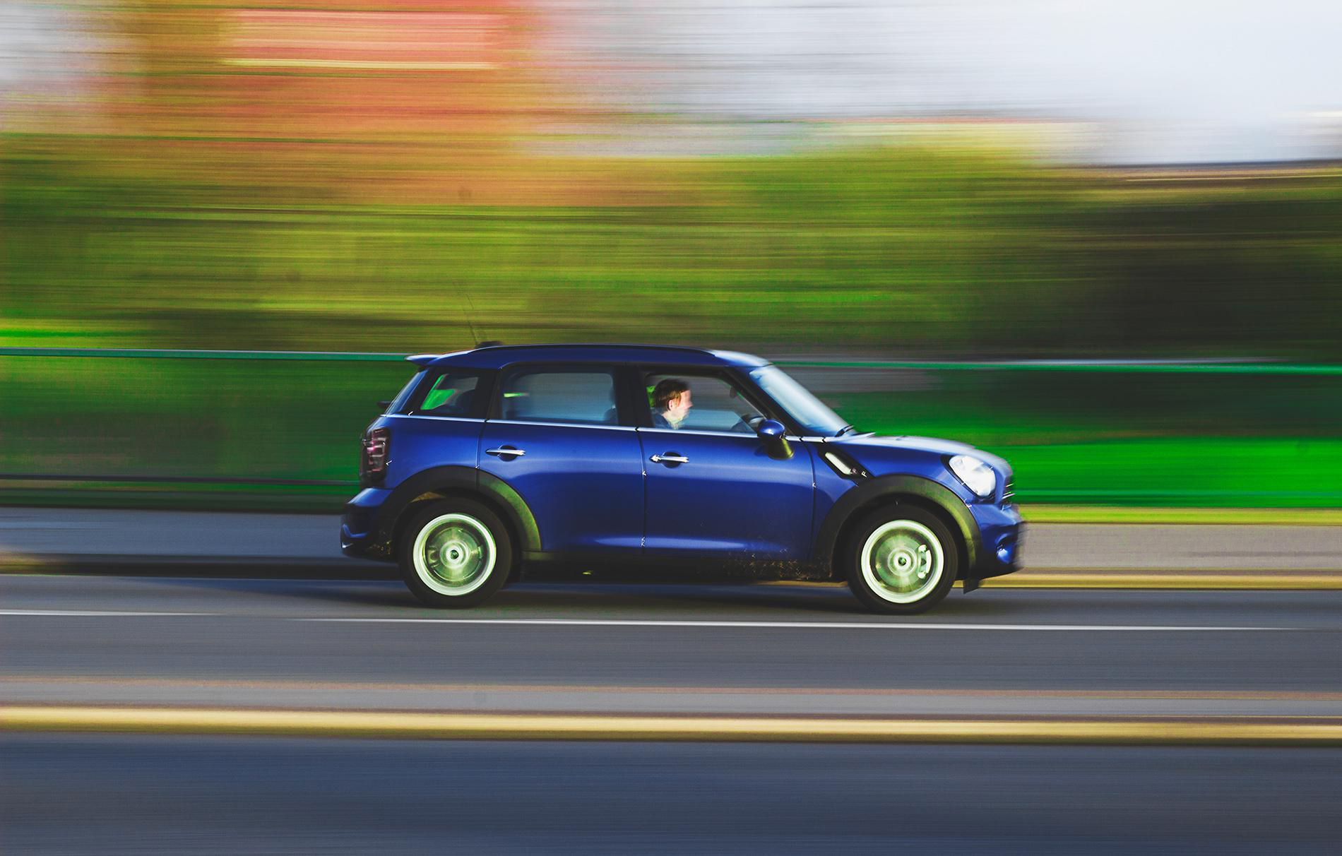 Blue Mini Cooper car speeding